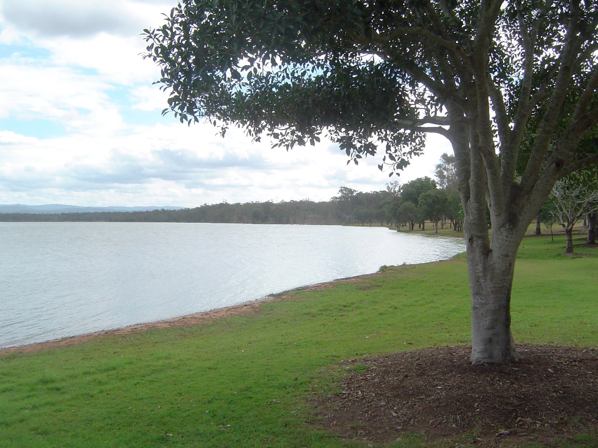 Photo of the shoreline of Lake Atkinson at picnic area.